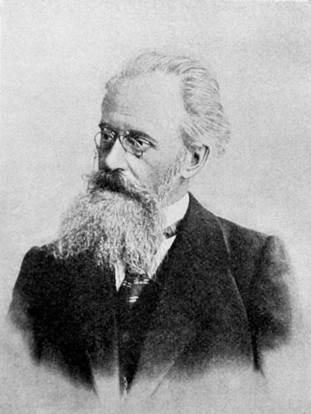 Nikolay Konstantinovich Mikhailovsky. (1842-1904) Russian journalist, sociologist and critic.